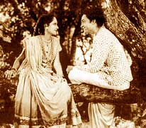 A still with Devika Rani and Ashok Kumar from the 1936 Hindi film Achhut Kanya aka Achhoot Kanya.